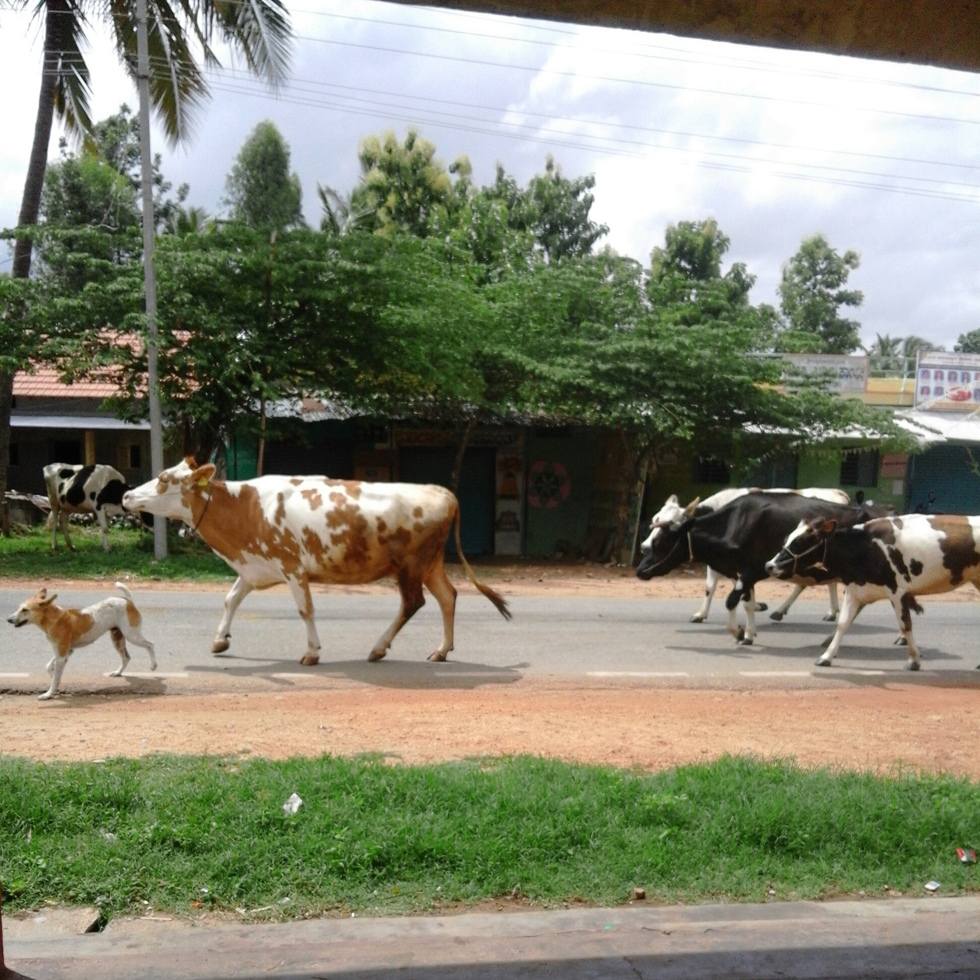 Mahadevapura village, Srirangapatana Taluk, Mandya district, Karnataka province, India.